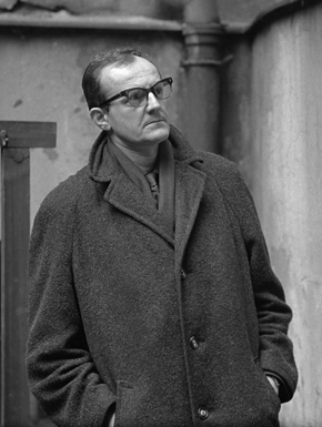 Portrait of Vladimír Boudník by Karel Kuklík, 1960s